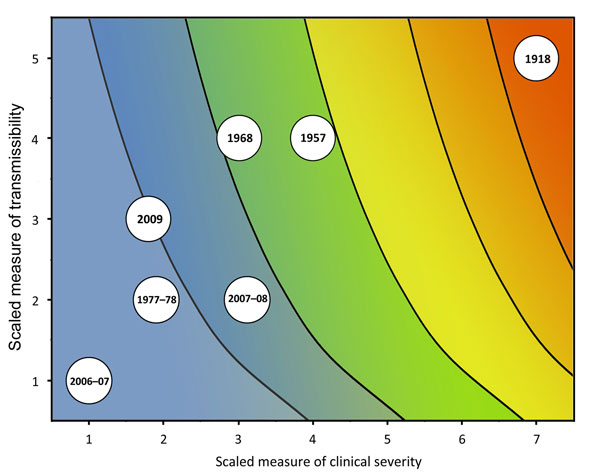 Framework for the refined assessment of the effects of an influenza pandemic, with scaled examples of past pandemics and past influenza seasons. Color scheme included to represent corresponding estimates of hypothetical influenza deaths in the 2010 US population, with color scale defined in the graphic: Model of Influenza Deaths in 2010 US Population